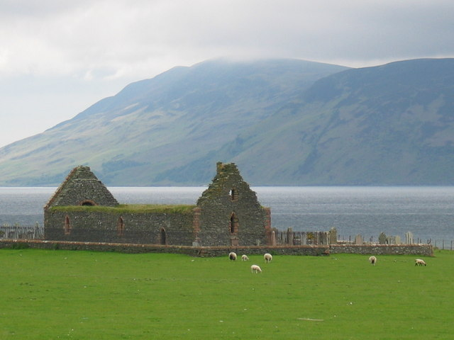 Skipness Chapel, Kintyre.